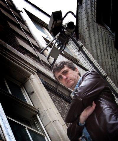 Photo of Steven Leather from his website.